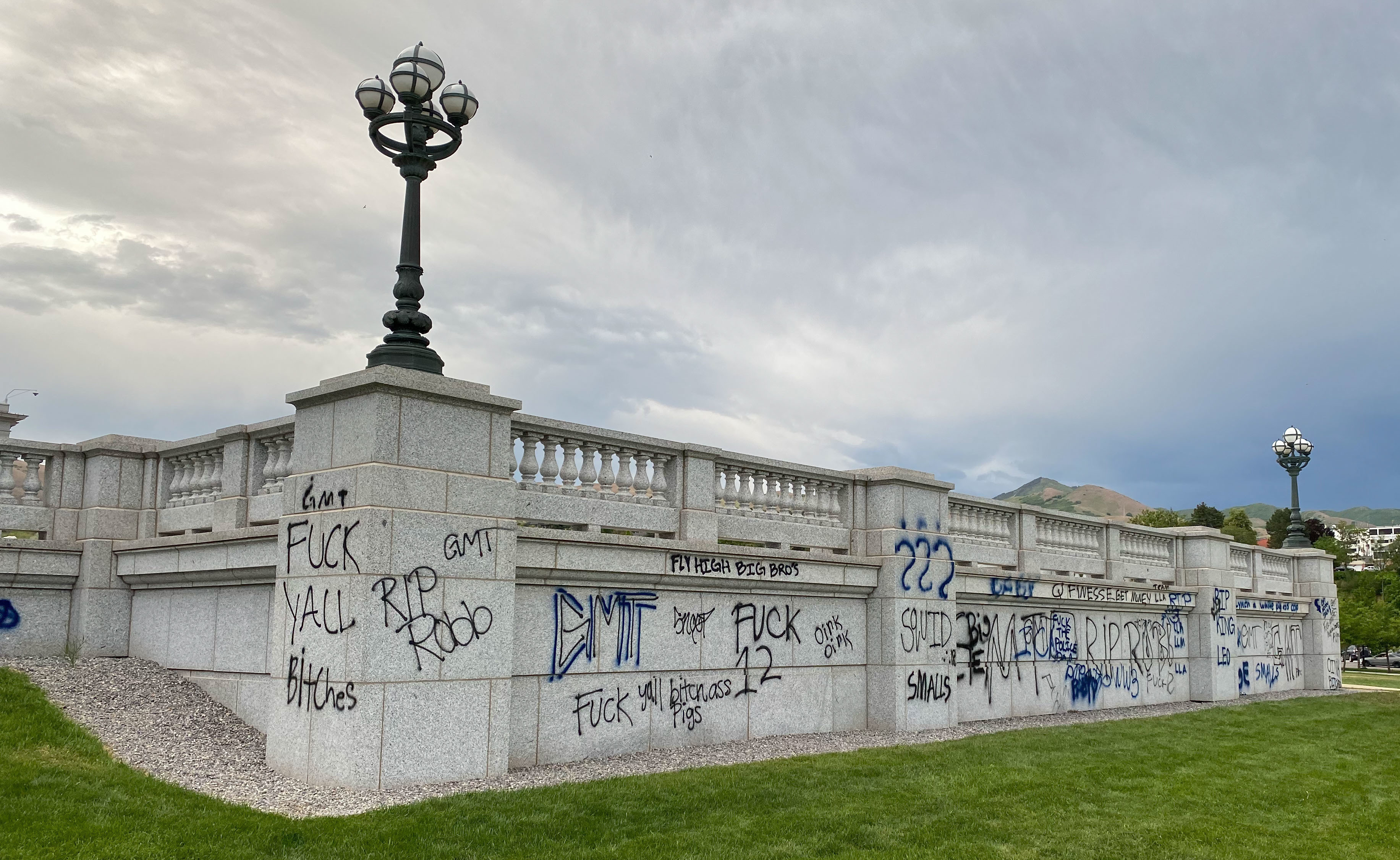 Airman of the 151st Security Forces Squadron answer the call of Utah Governor Gary R. Herbert, to provide an extra layer of safety and security in response to demonstrations and rioting at the Utah State Capitol, as well as, the Salt Lake City and County Building. (US Air National Guard photo by Tech. Sgt. Joe A. Davis)